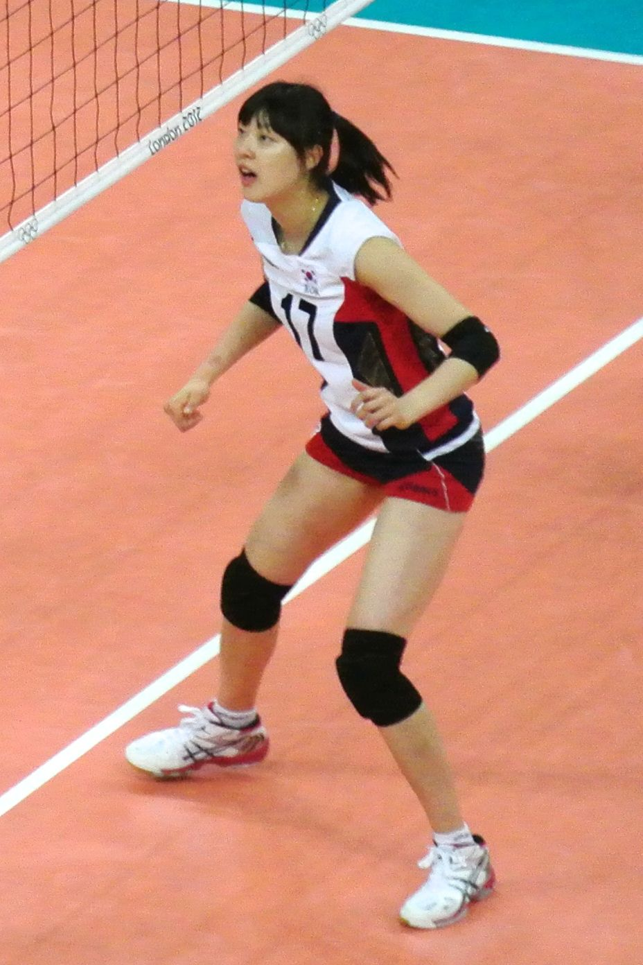 South Korean volleyball player Yang Hyo-Jin.